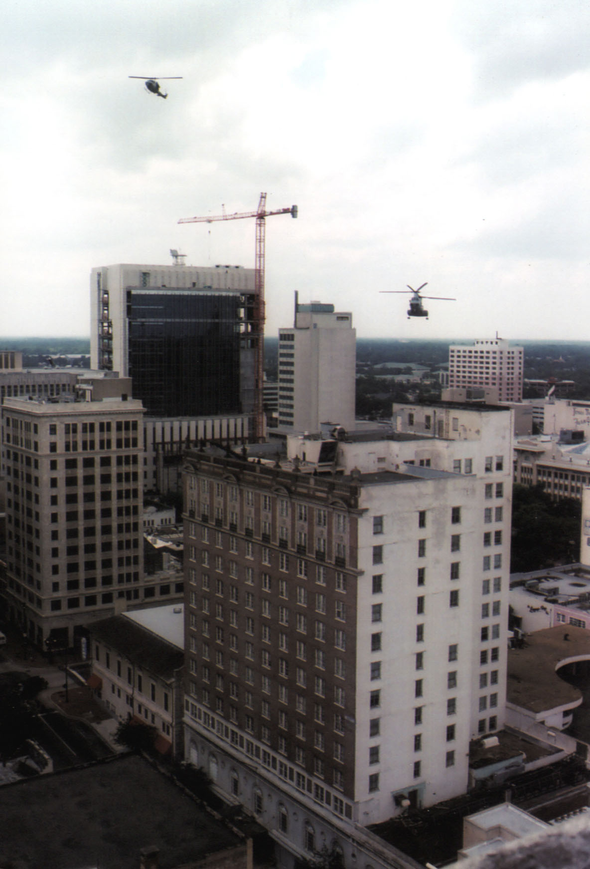 Picture of the Hotel Roosevelt from the June 21, 2001 issue of the Jax Air News. Their website security statement says, "All information on this site is considered public information and may be distributed or copied. Use of appropriate byline/photo/image credits is requested." Photo by Jeff Hilton.